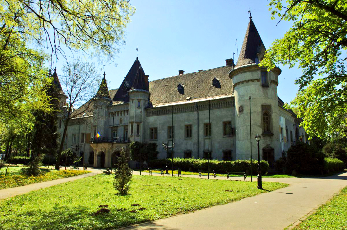 a view of the Karolyi castle in Carei, Romania 02